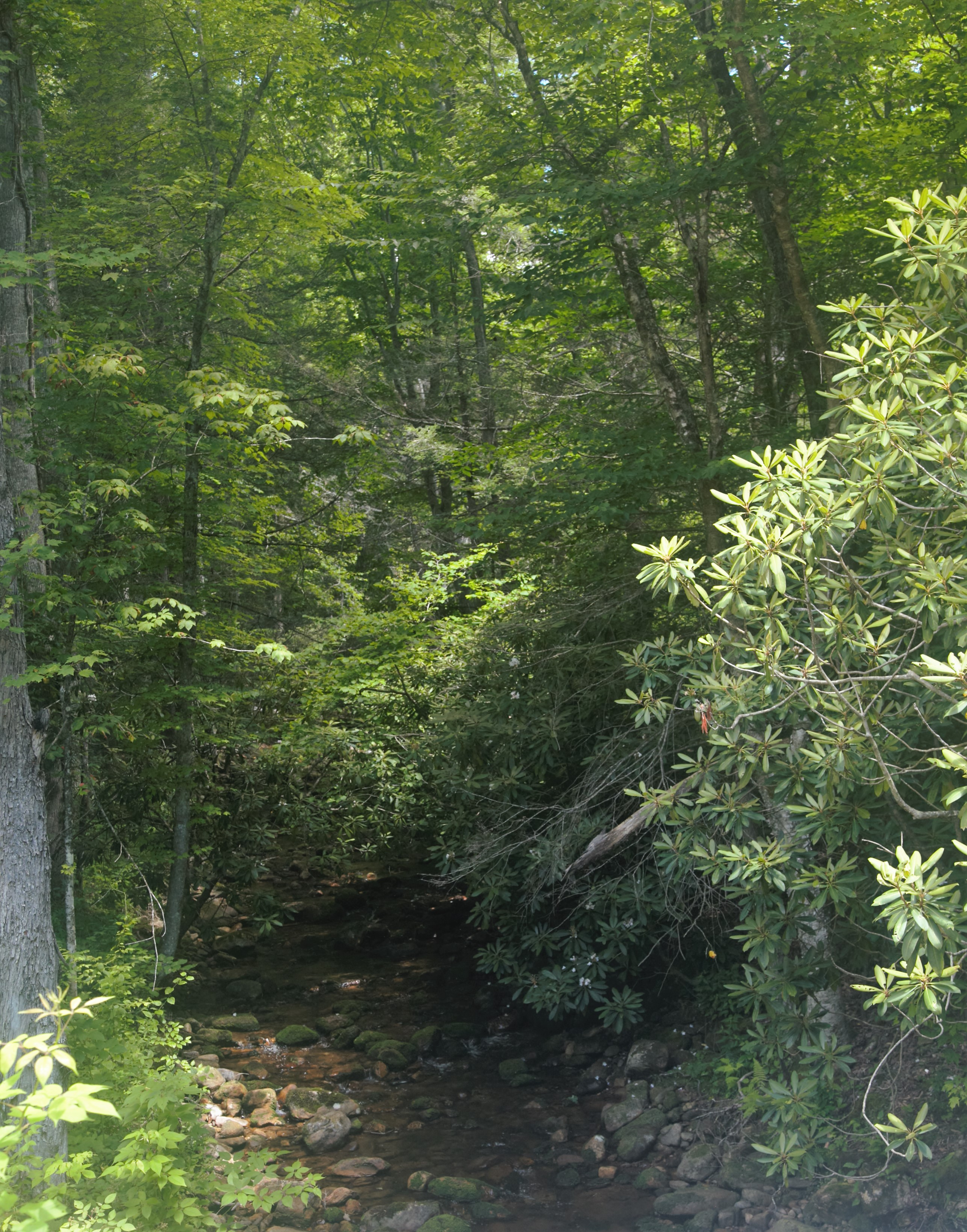 Roaring Fork originating in Beartown Wilderness